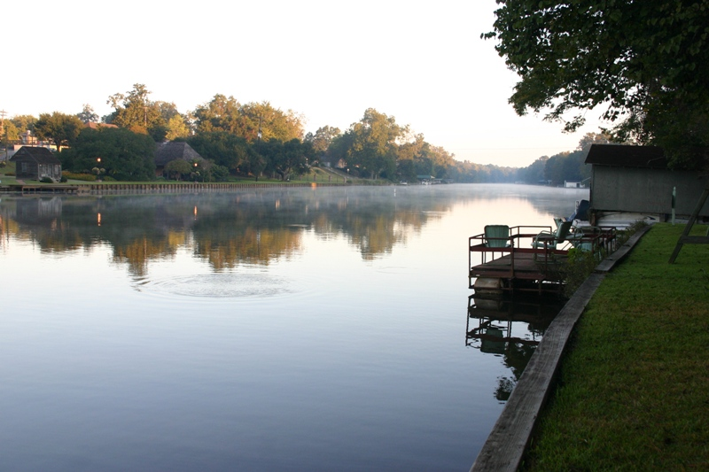 Cane River Lake — shoreline near Melrose, in the Cane River National Heritage Area, Natchitoches Parish, Louisiana. "View from in front of our B&B."